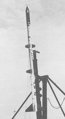 Argo-D4 (Javelin) rocket